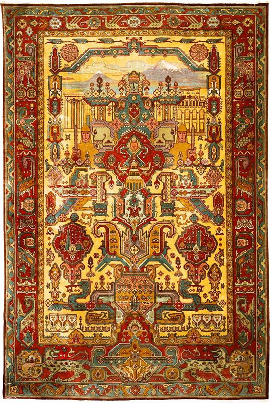 Armenian rug Mayr Hayastan, 20th century, No. 2358